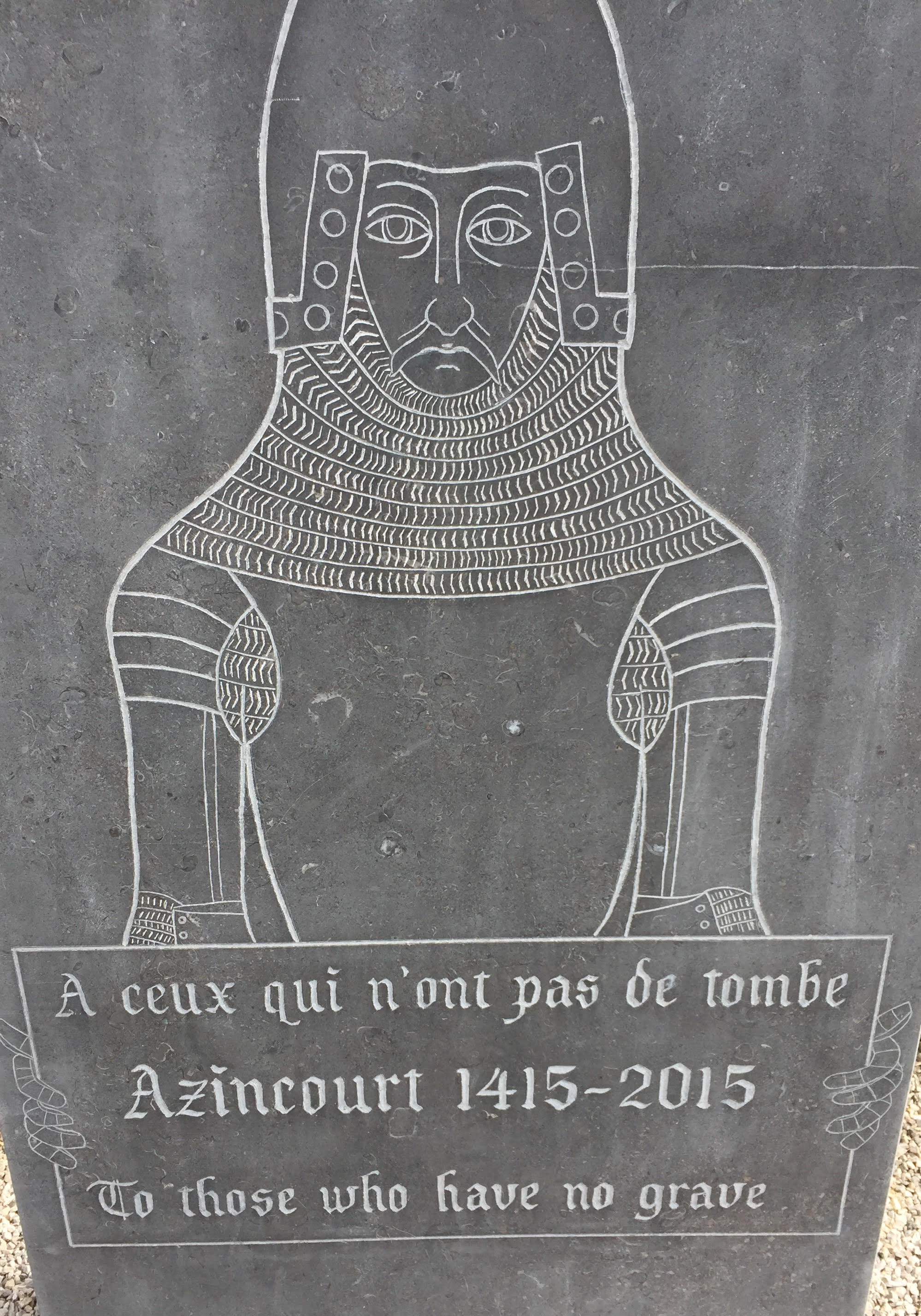 Memorail to the fallen of the battle of Agincourt, who have no memorial